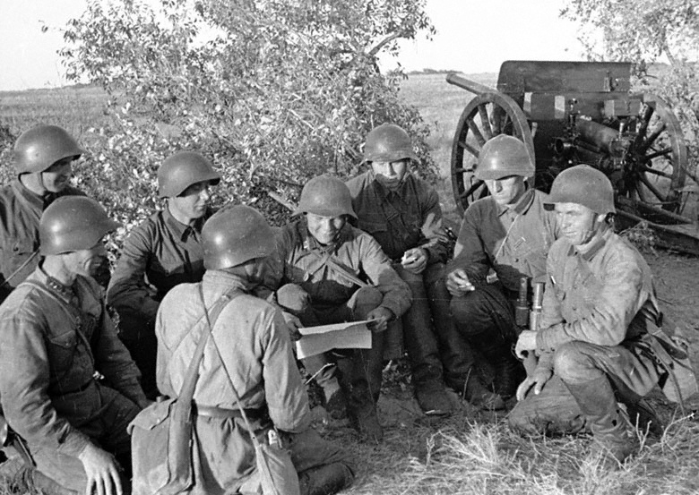 Battle of Lake Khasan-Red Army gunners in the interval